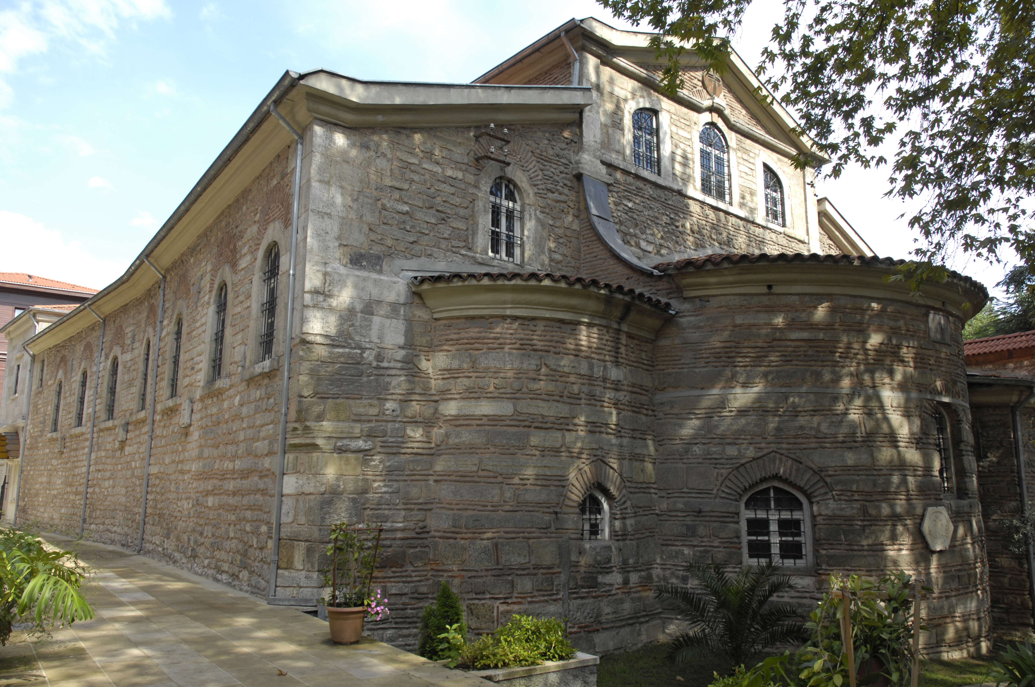 The complex is the Ecumenical Patriarchate of Constantinople, several buildings face a square.